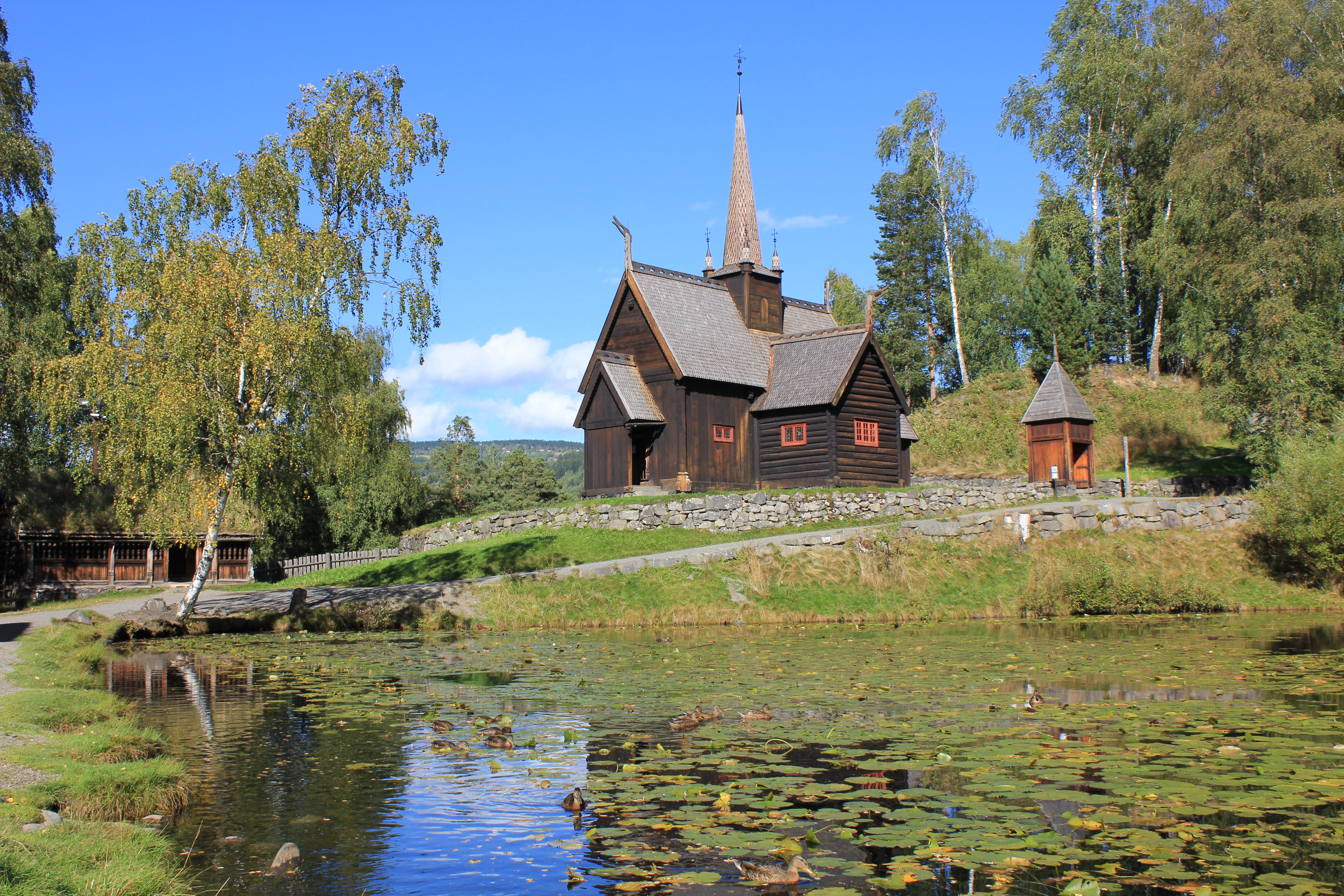 The stave church (Garmo stave church) at Maihaugen country museum, Lillehammer, Norway.